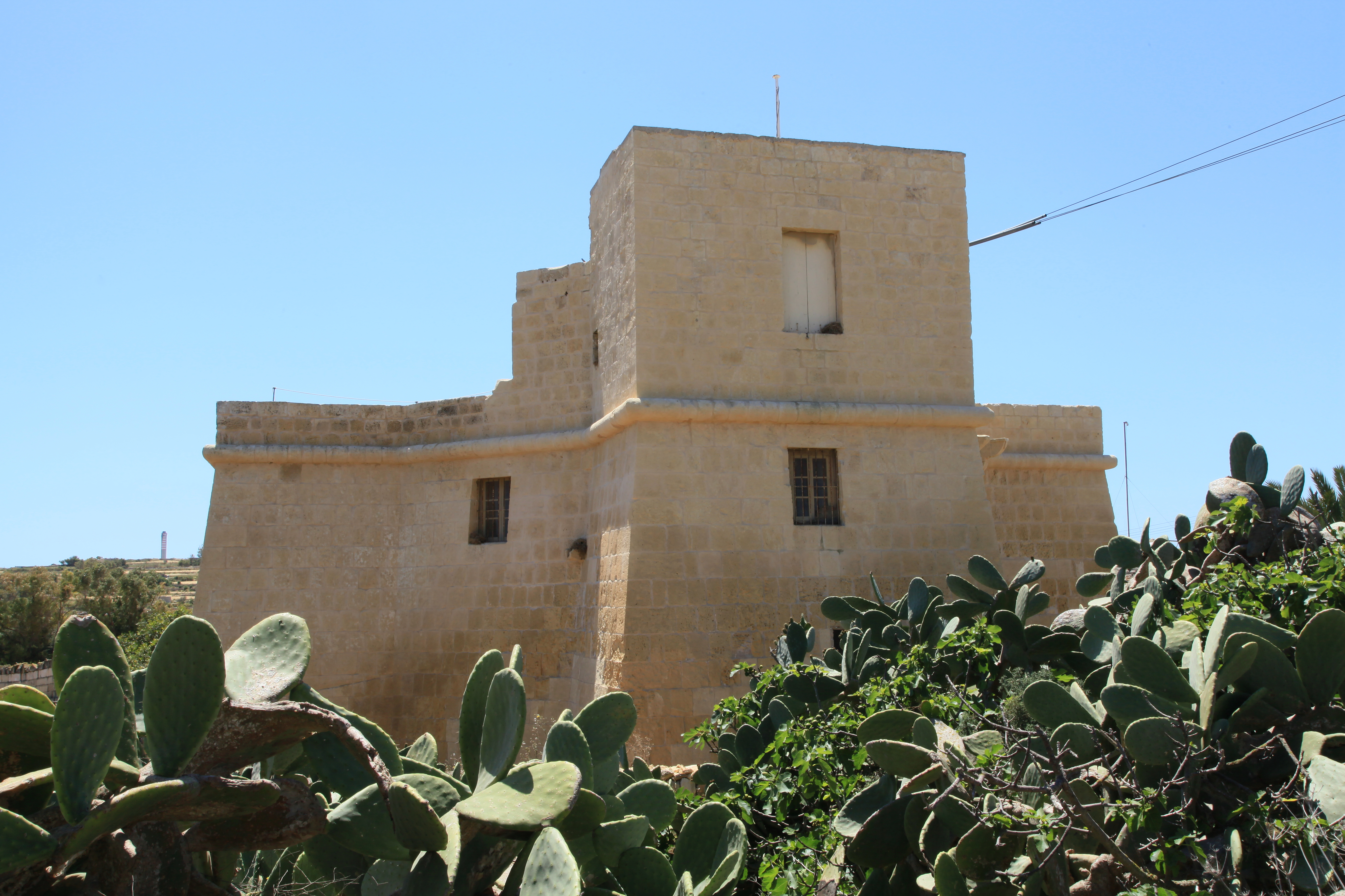 Mamo Tower at Triq id-Dahla ta' San Tumas in Marsaskala, Malta